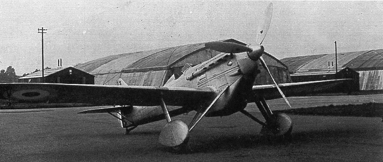 Dewoitine D.510 under test at Martlesham Down with RAF serial L4670. October 1936, Hispano-Suiza 12Ycrs engine.